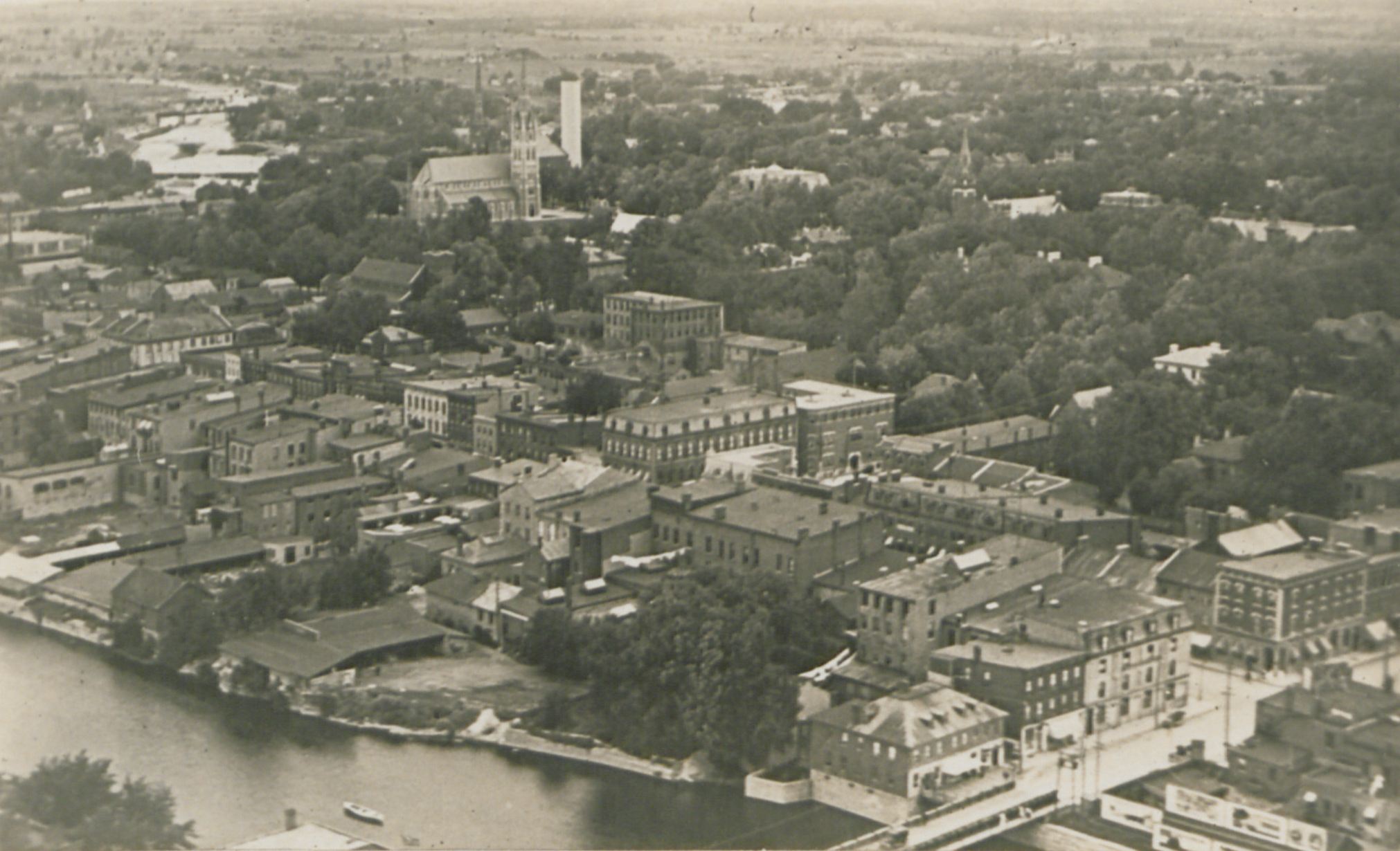 Original caption: “Belleville Ontario from the Air.”